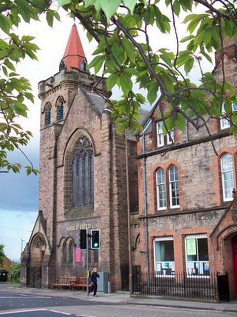 Kirk O' Field church Edinburgh Kirk o' Field Parish Church stands at the corner of Brown Street and the Pleasance in Edinburgh, part of a group of buildings which symbolise the church's involvement in the three areas of Christian life, service and worship. The church was opened in 1912, but Christian work began on this site in 1890.